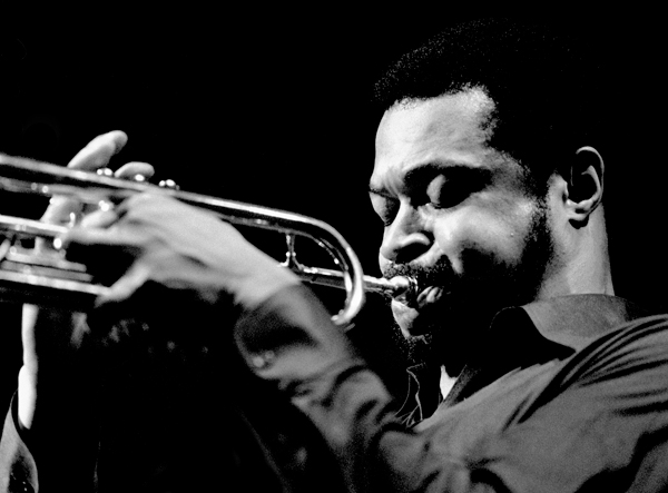 Woody Shaw, Keystone Korner, San Francisco 11/10/1979. Photo: Brian McMillen /